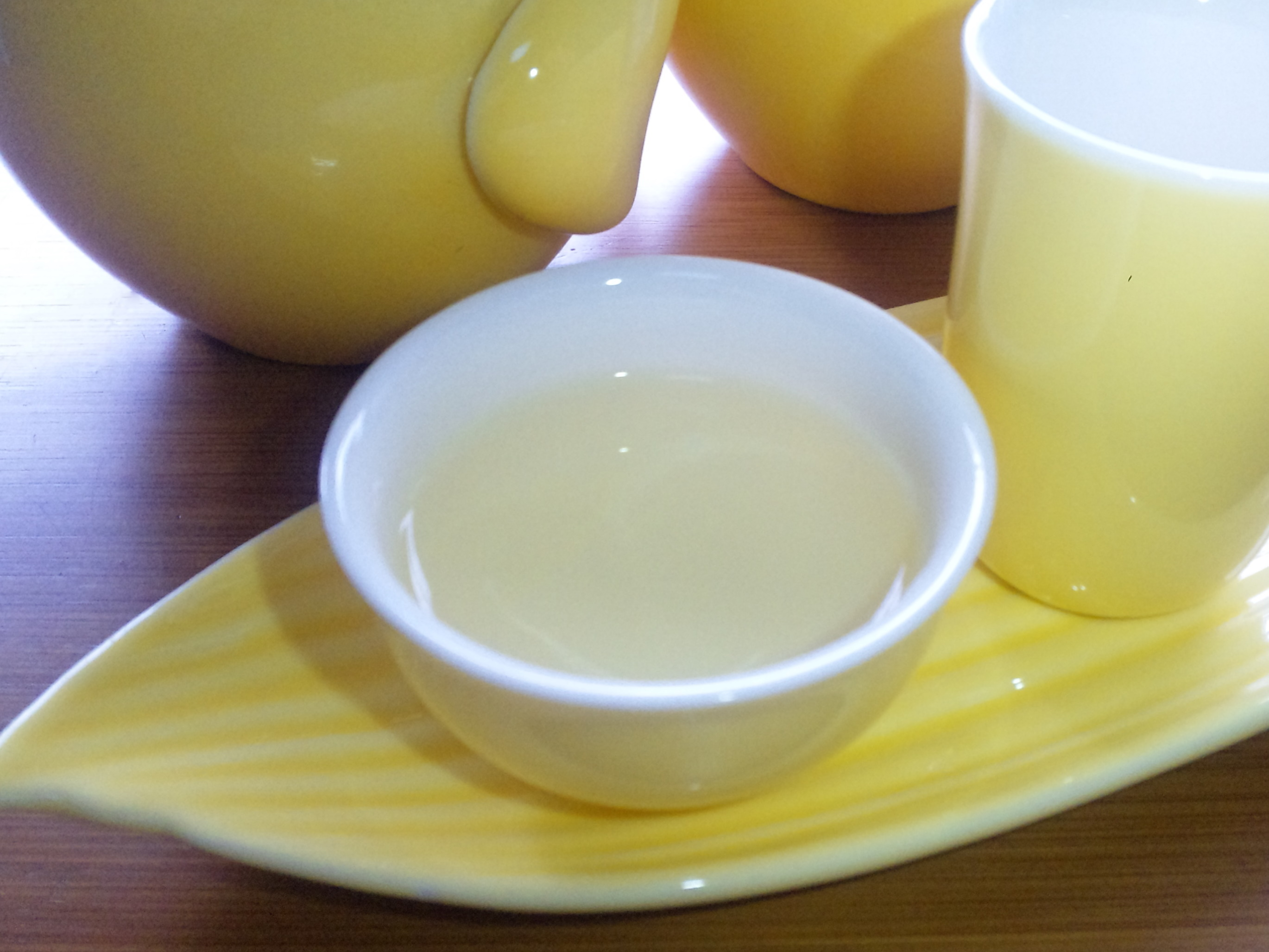 Xi Hu Longjing Tea